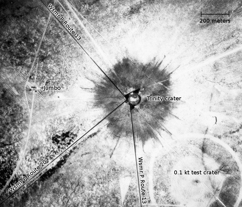 White Sands, New Mexico. Aerial view of the aftermath of the Trinity test, 28 hours after the explosion. The smaller crater to the southeast is from the earlier detonation of 100 tons of TNT on May 7, 1945. To the left of the crater can be seen the "Jumbo" container, unharmed, and its collapsed tower (a vertical line).